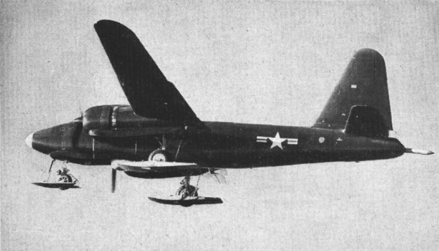 A ski-equipped U.S. Navy Lockheed P2V-2 Neptune, in 1949.